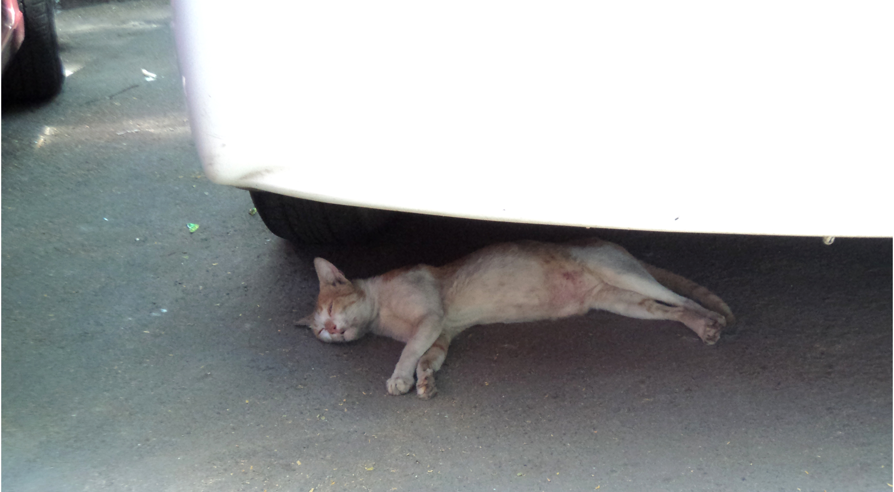 Sleeping cat under a wheel in Mumbai's street